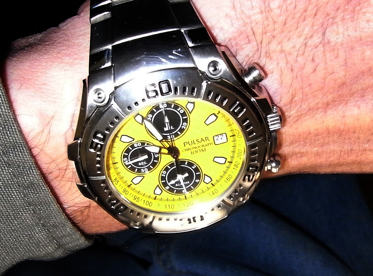 Pulsar